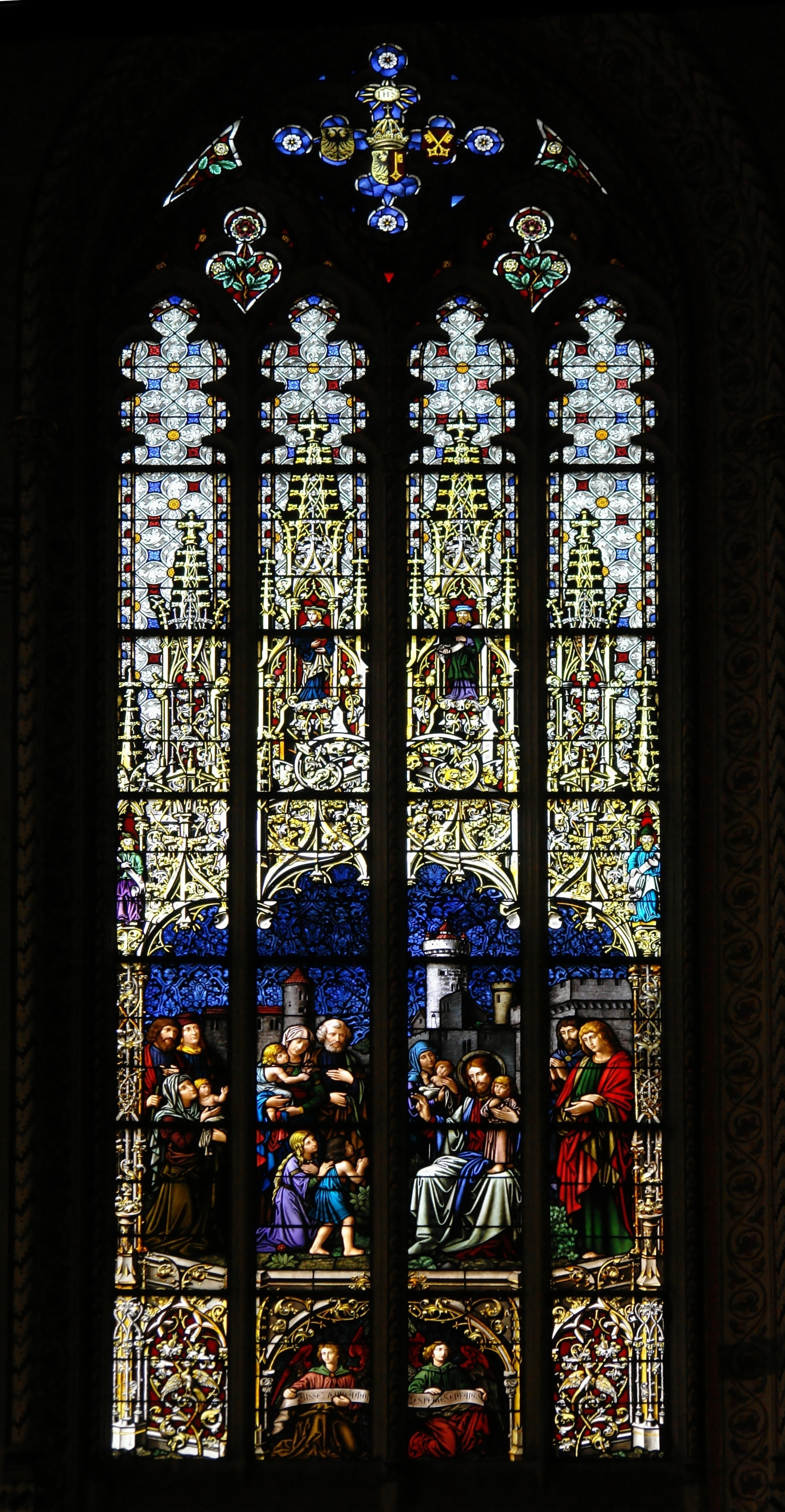 Stained glass windows at Saint-Pierre cathedral, Geneva, Switzerland.